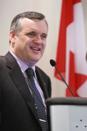 The Honourable David C. Onley, Lieutenant Governor of Ontario